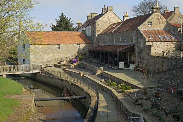 Fife Folk Museum Fife Folk Museum, Ceres. The museum is housed in a collection of buildings to the east of the burn.